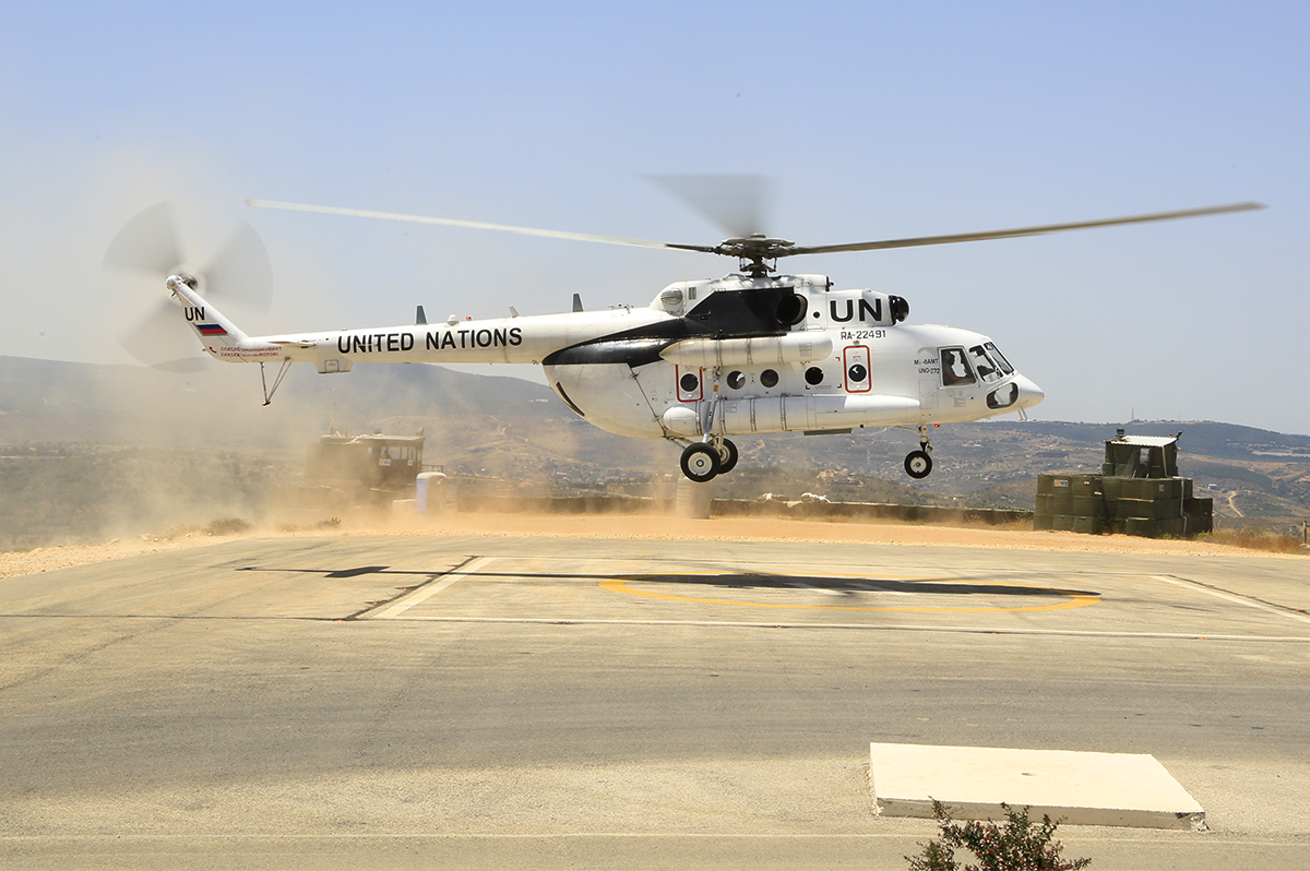 Irish Defence Forces Lebanon 16 06 2014 TAOISEACH Enda Kenny arrives in UN Post 2-45 by MI - 8 Helicopter